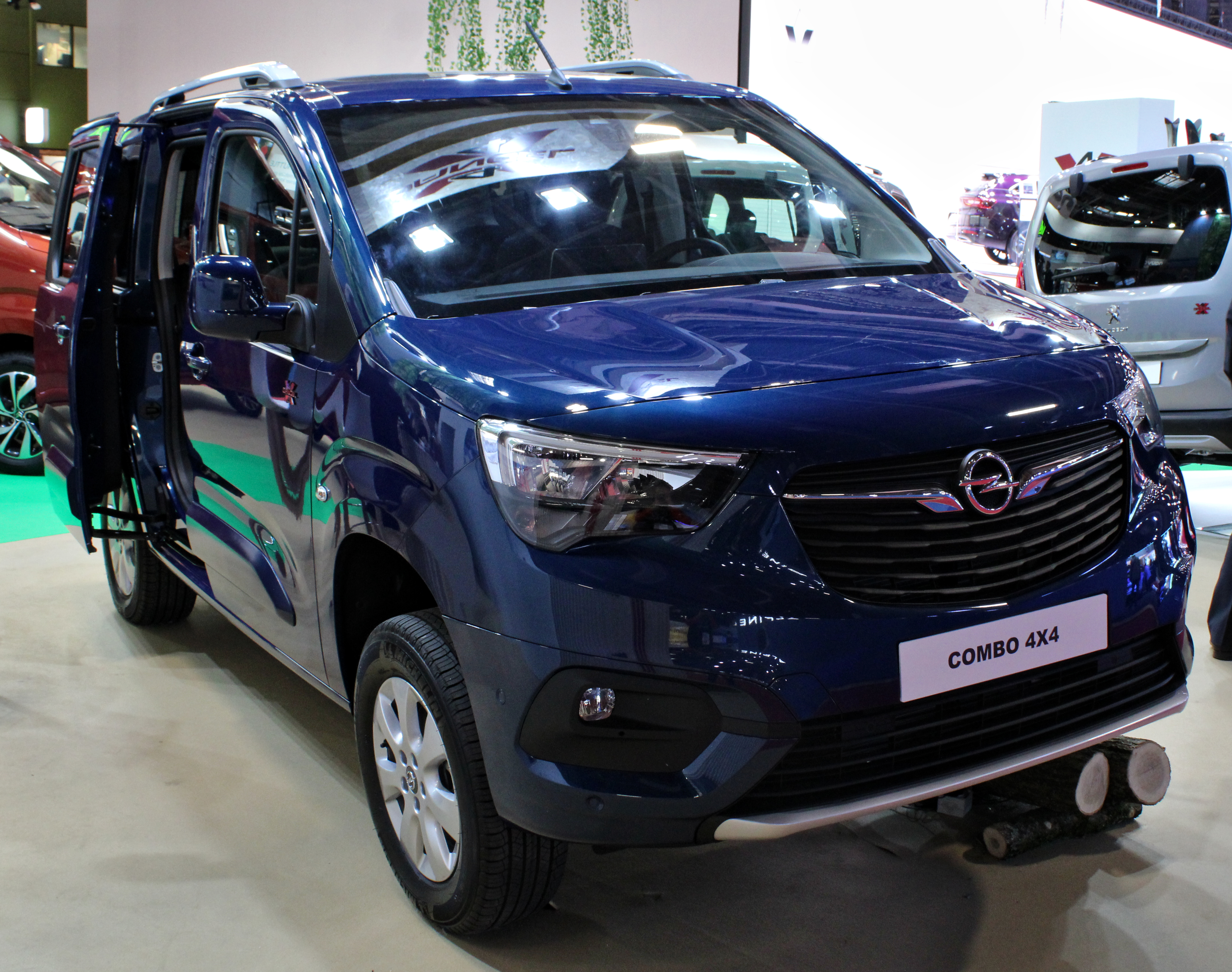 Opel Combo at Paris Motor Show 2018